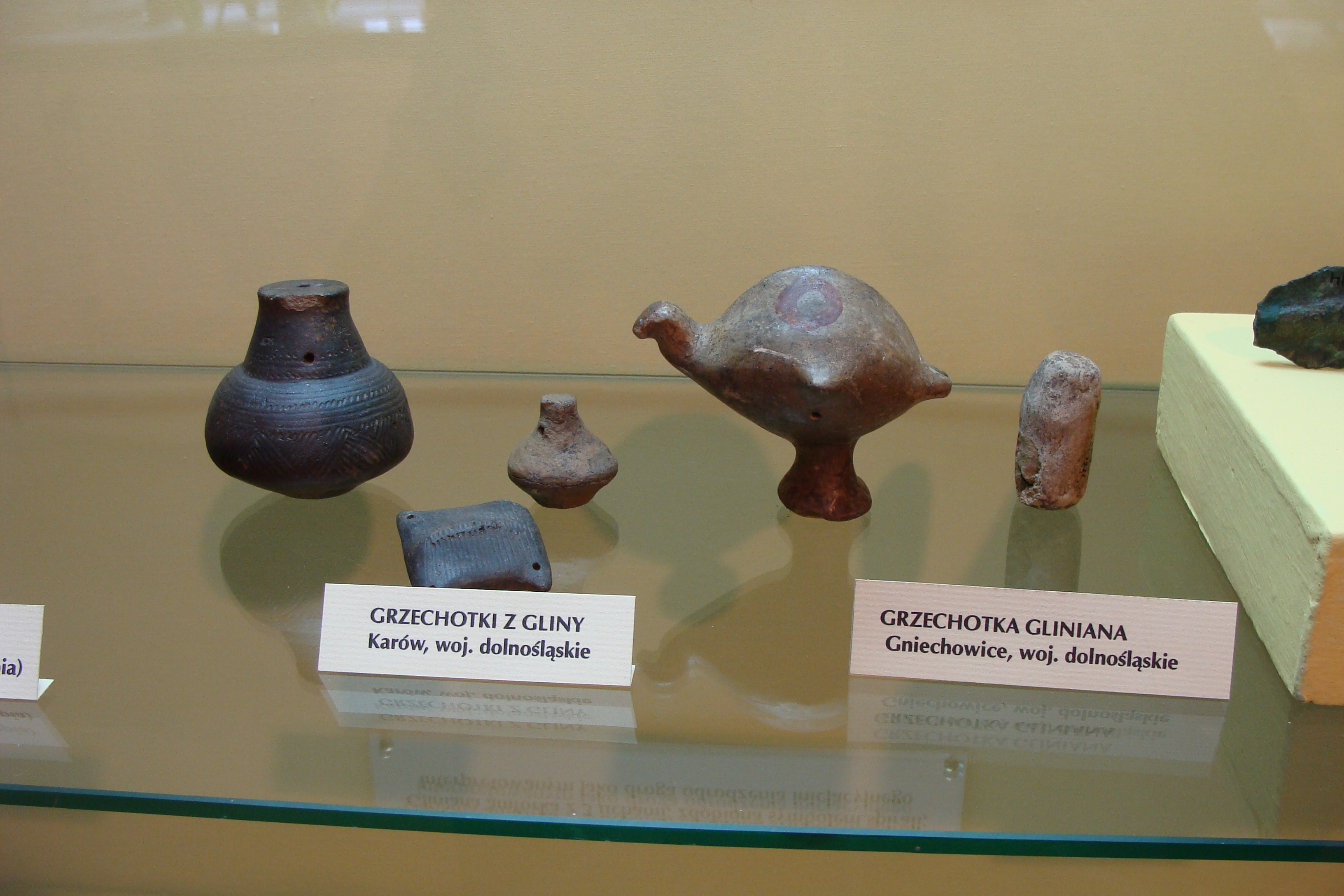 Grzechotki gliniane, Muzeum Ślężańskie (Sobótka, 2009)